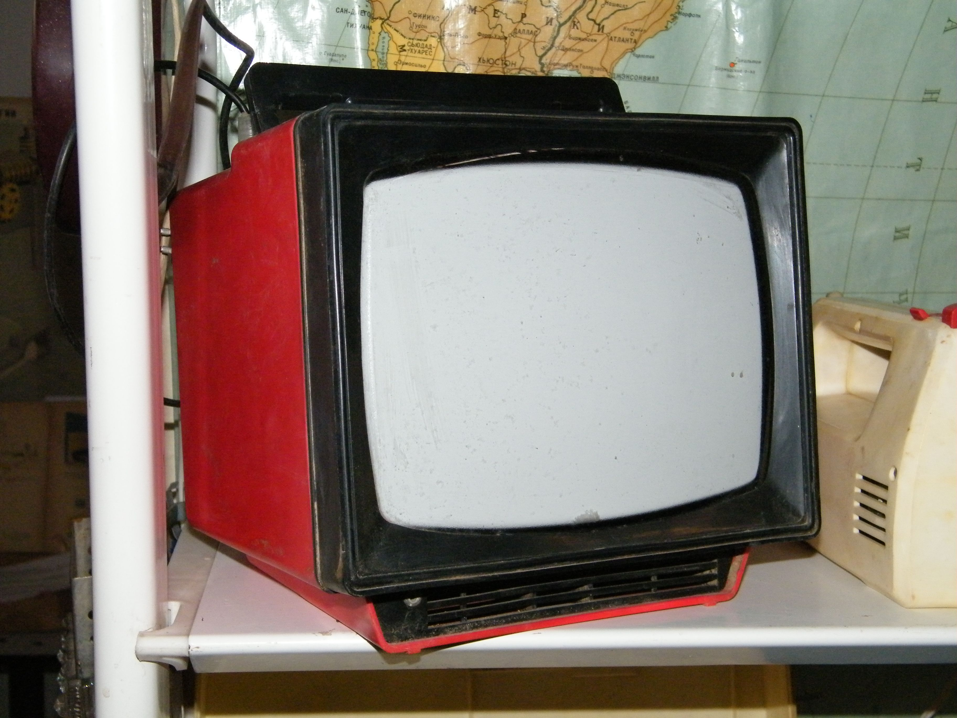 Television sets